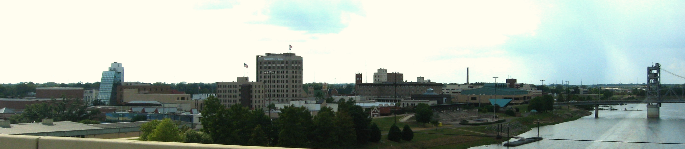 Skyline of Alexandria, Louisiana, United States.